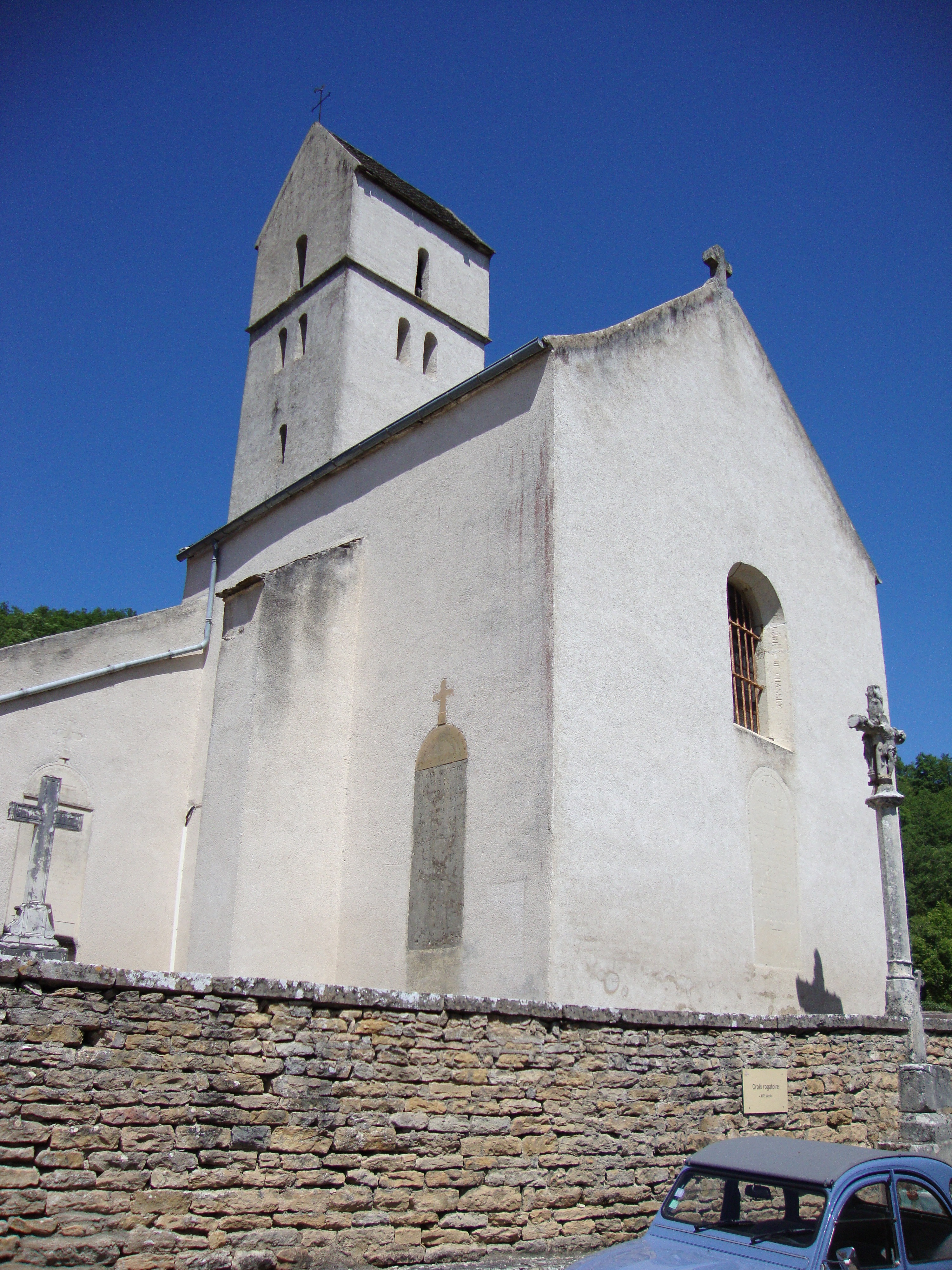 Chassey-le-Camp (Saône-et-Loire,Fr) church